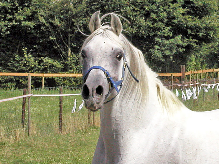 asil Arabian stallion VASHARA CHAMAL (straight Egyptian bloodlines)